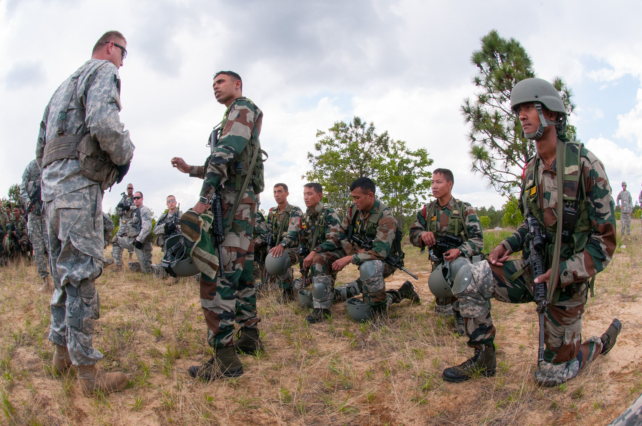 Indian Army soldiers with the 99th Mountain Brigade's 2nd Battalion, 5th Gurkha Rifles, begin a demonstration of a platoon-level ambush to paratroopers with the U.S. Army's 1st Brigade Combat Team, 82nd Airborne Division, May 7, 2013, at Fort Bragg, N.C. The soldiers are part of Yudh Abhyas, an annual bilateral training event between the armies of the United States and India, sponsored by U.S. Army Pacific.